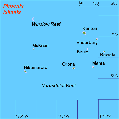 Map (rough) of the Phoenix islands, Kiribati, own work composed from various mapreferences